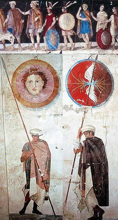 Paintings of Ancient Macedonian soldiers, arms, and armaments, from the tomb of Agios Athanasios in Greece. A variety of bright colors are used in illusionistic fashion to portray the men and patterns of their shields.